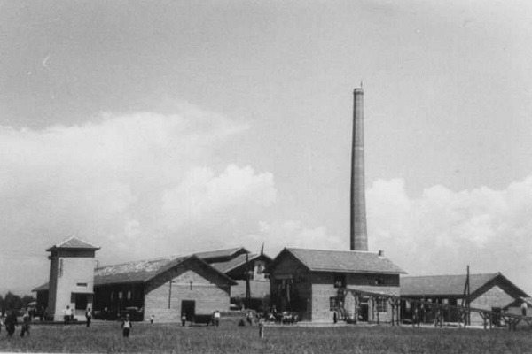 Brick factory in Rakovski